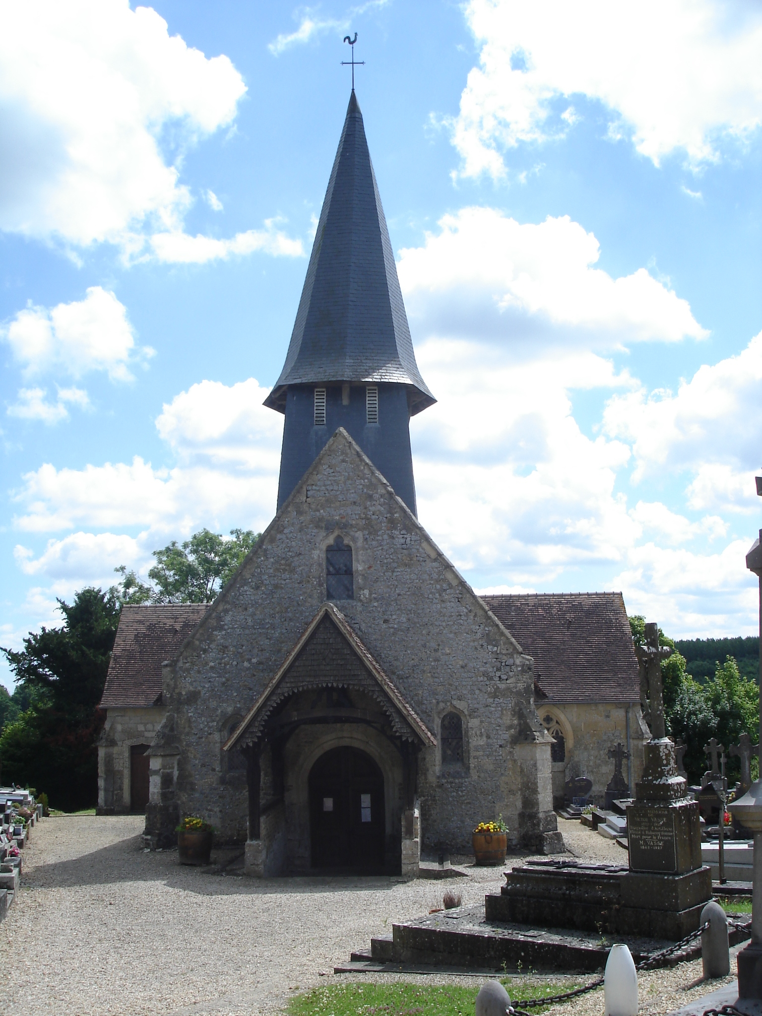 The church in the village of Le Pré-d'Auge (Calvados - FRANCE)The church has a roman front, and a bell tower of 1761.